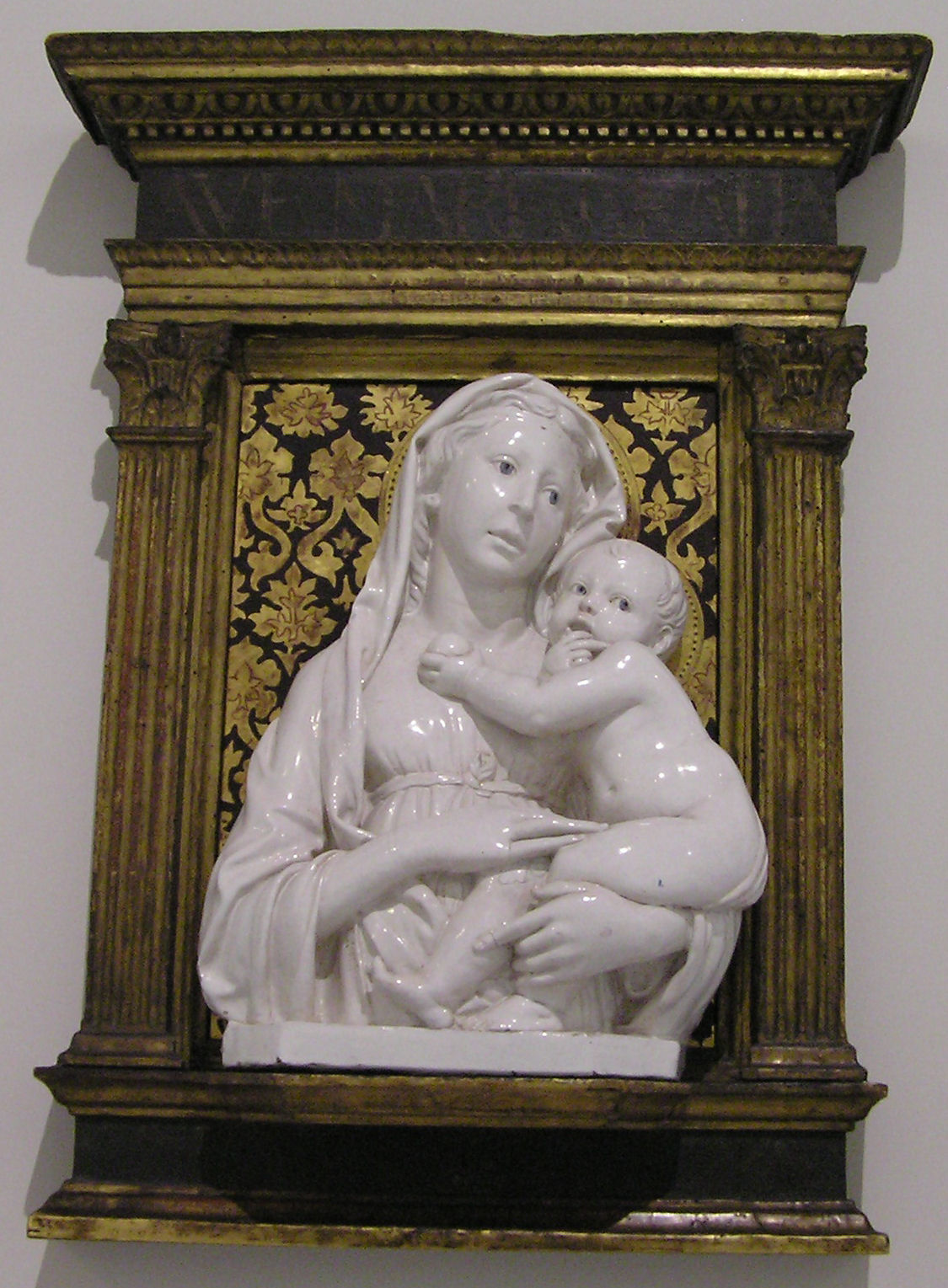 Luca della Robbia: Virgin with Child, 1450, Bode Museum, Berlin